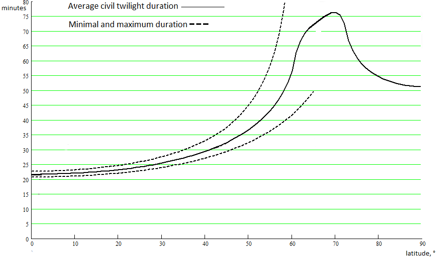 Avearge civil twilight duration